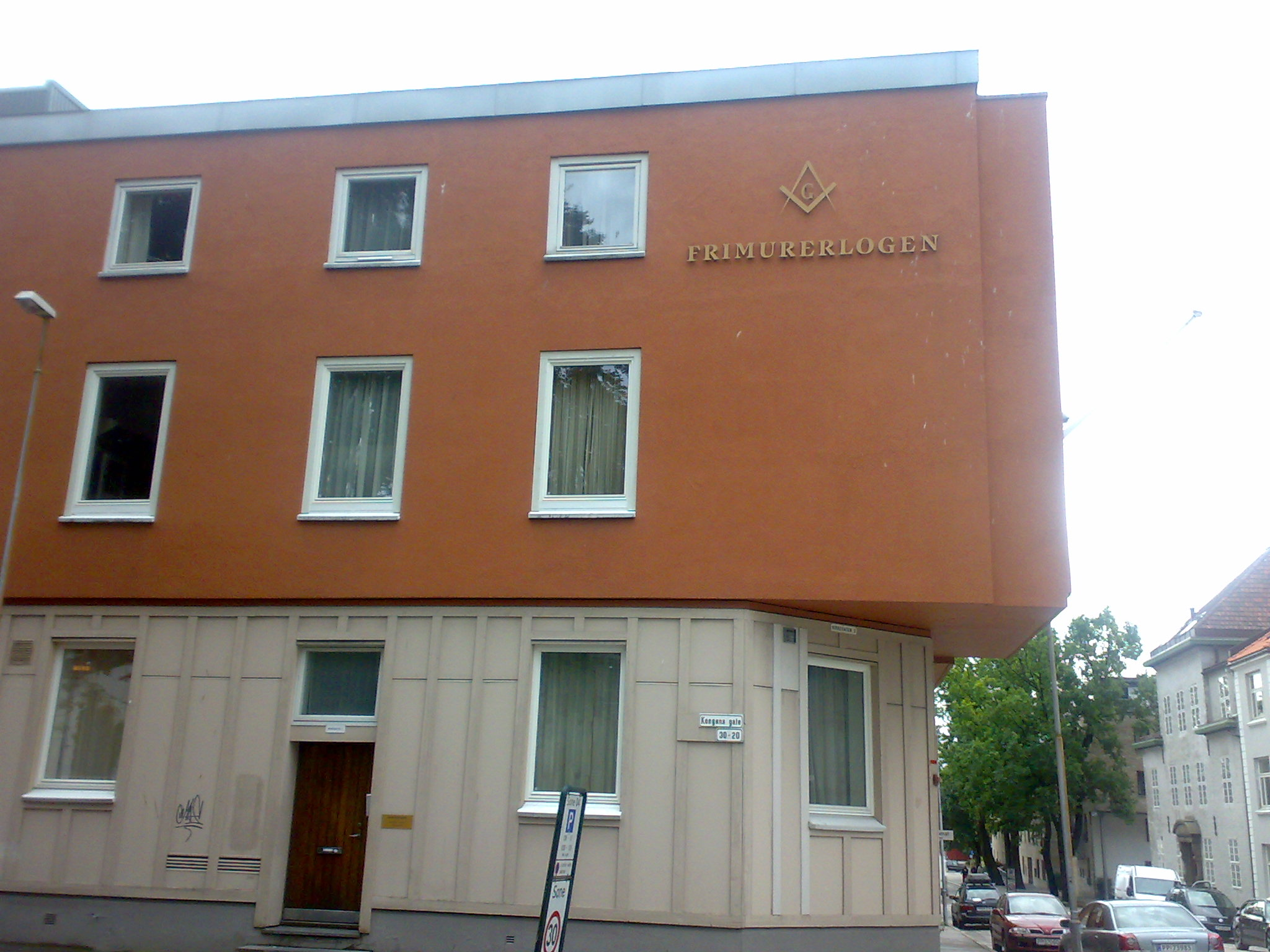 Freemasonry chapter, Kirkegata 2, Kristiansand, Norway